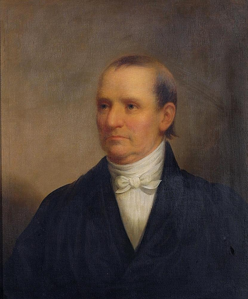 Messes, Asa (1769 - 1836)